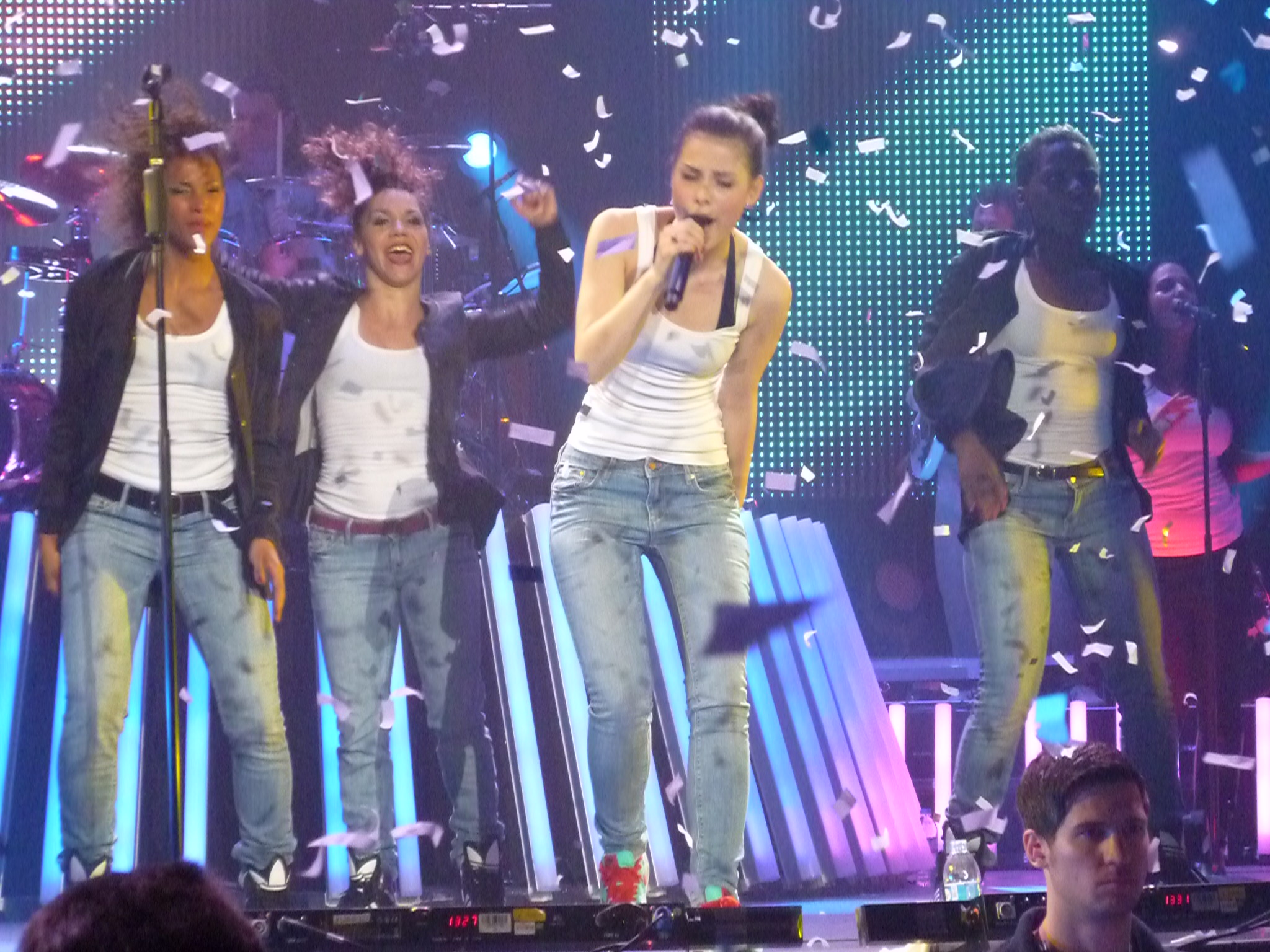 Lena Meyer-Landrut performes New Shoes on stage during Lena Live-Tour 2011 in the AWD-Areana in Hannover